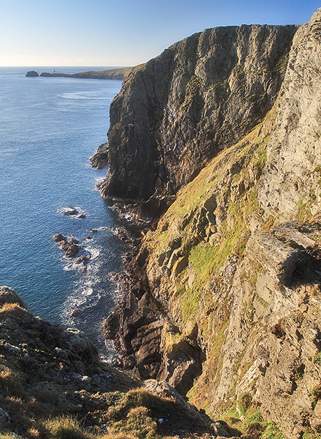 Spanish Head from Black Head With the Chicken Rock Lighthouse in the distance.